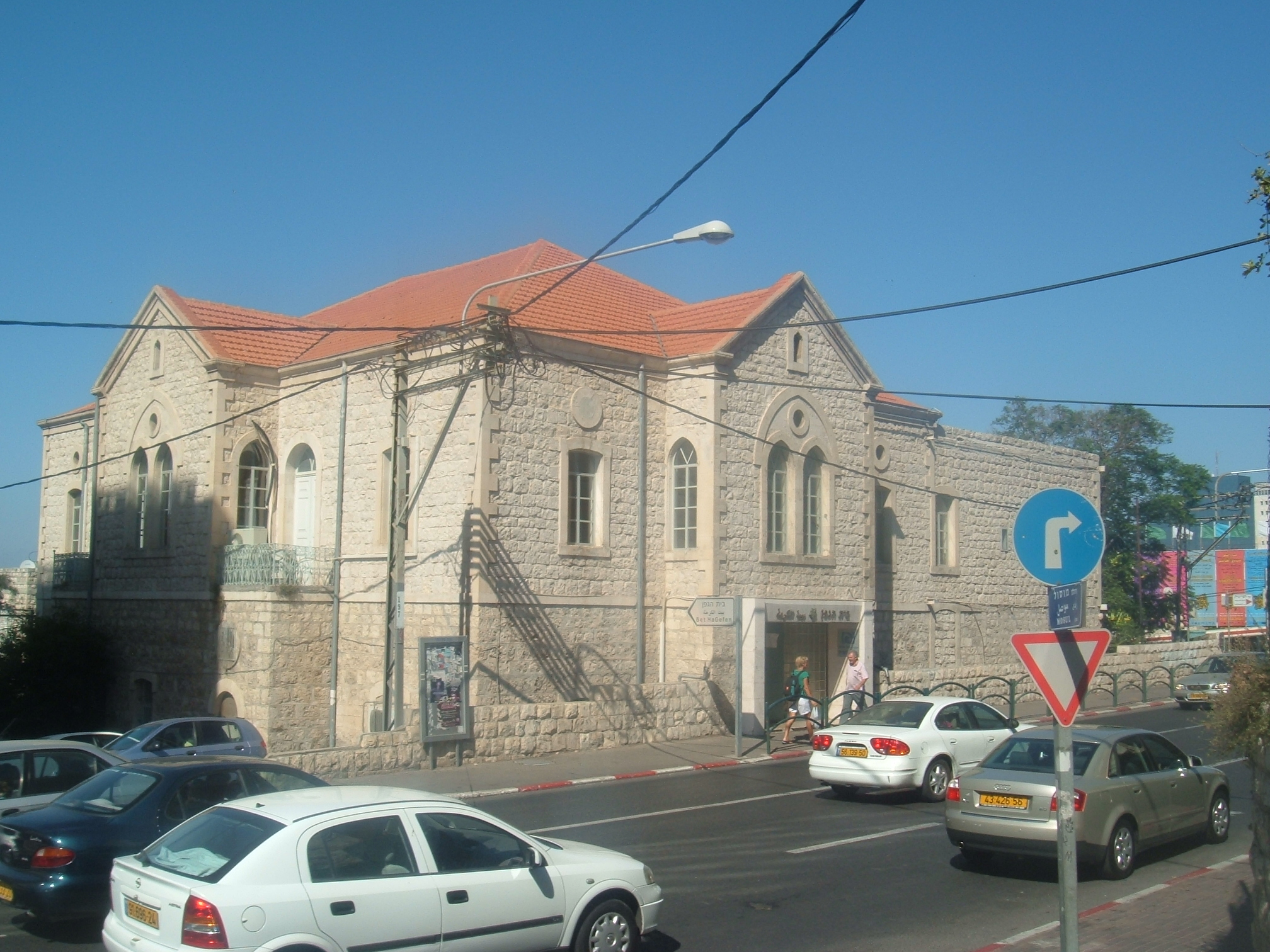 Beth Hagefen Arab Jewish Center, Haifa המרכז היהודי-ערבי בית הגפן, חיפה